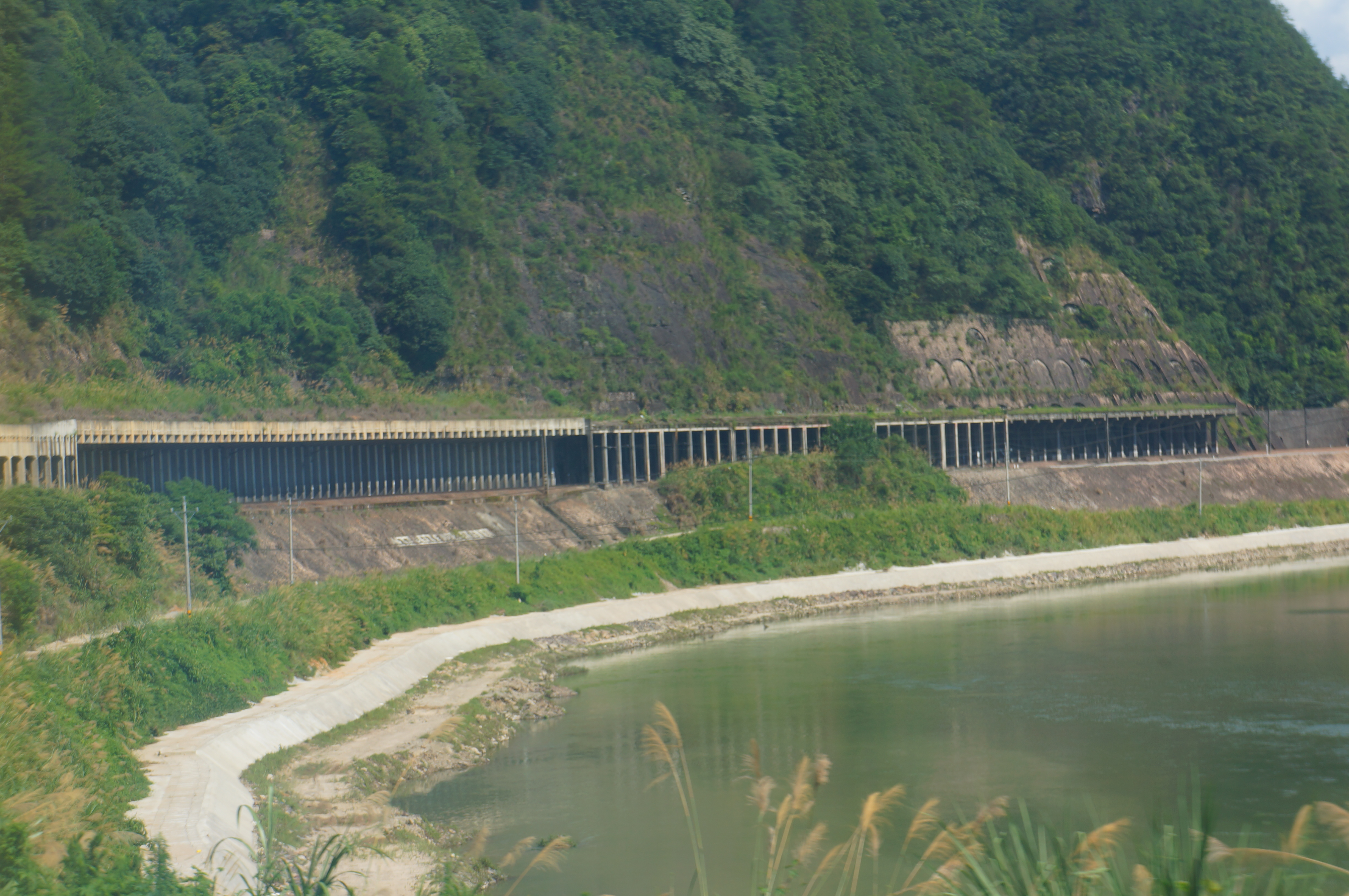 201806 Mokou Shed Hole2